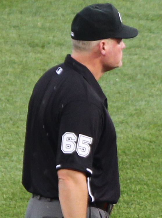 MLB umpire Ted Barrett - April 24, 2011.